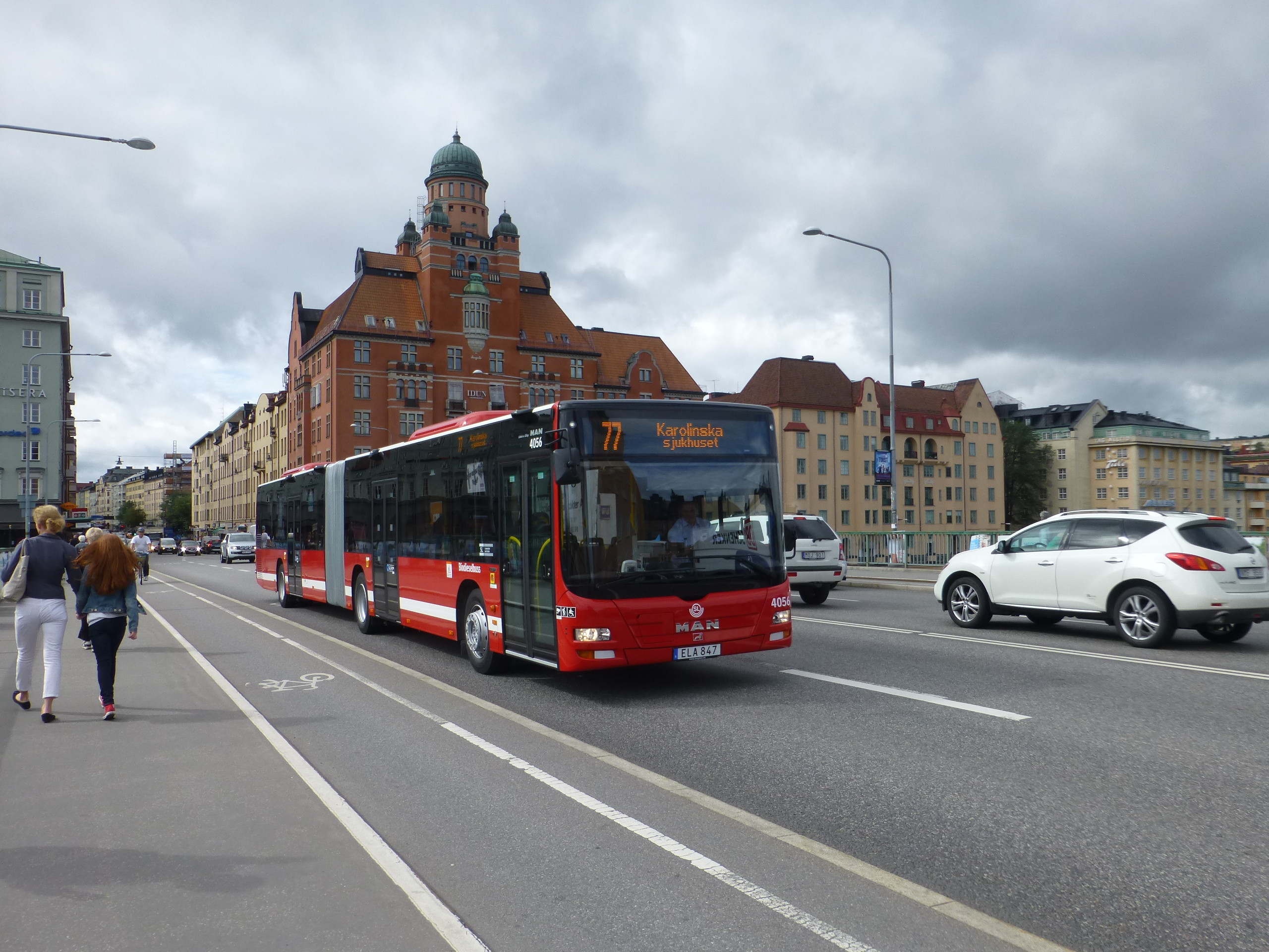 SL bus line 77 on Sankt Eriksbron in Stockholm.